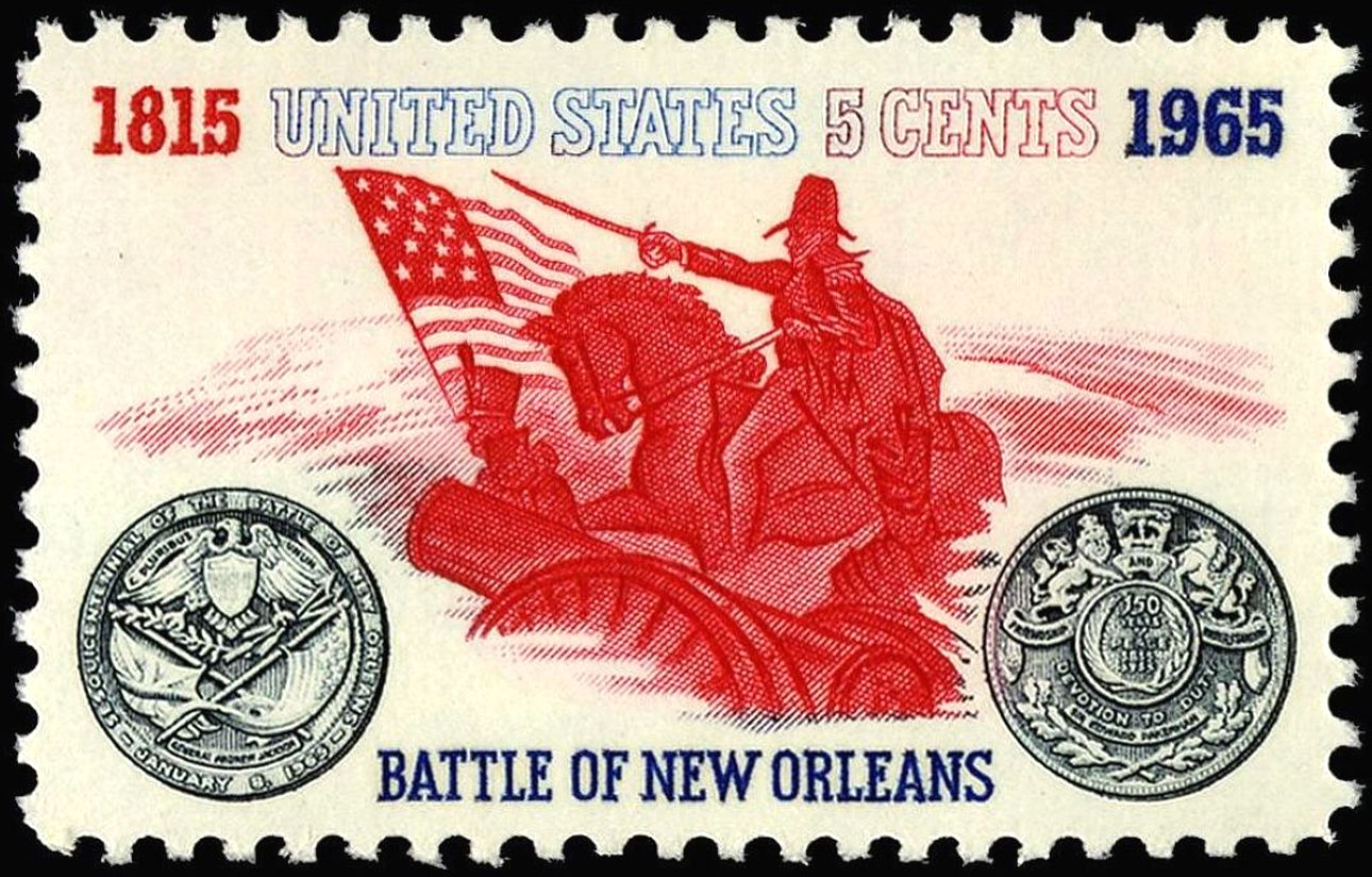 1965 United States stamp commemorating the sequicentennial of the Battle of New Orleans and 150 years of British-U.S. peace.